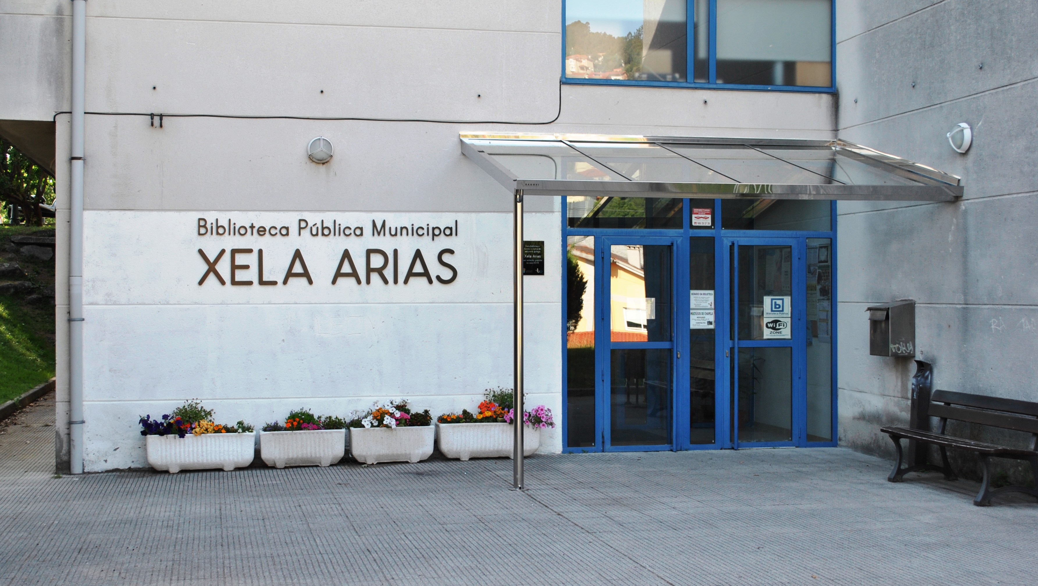 See title.